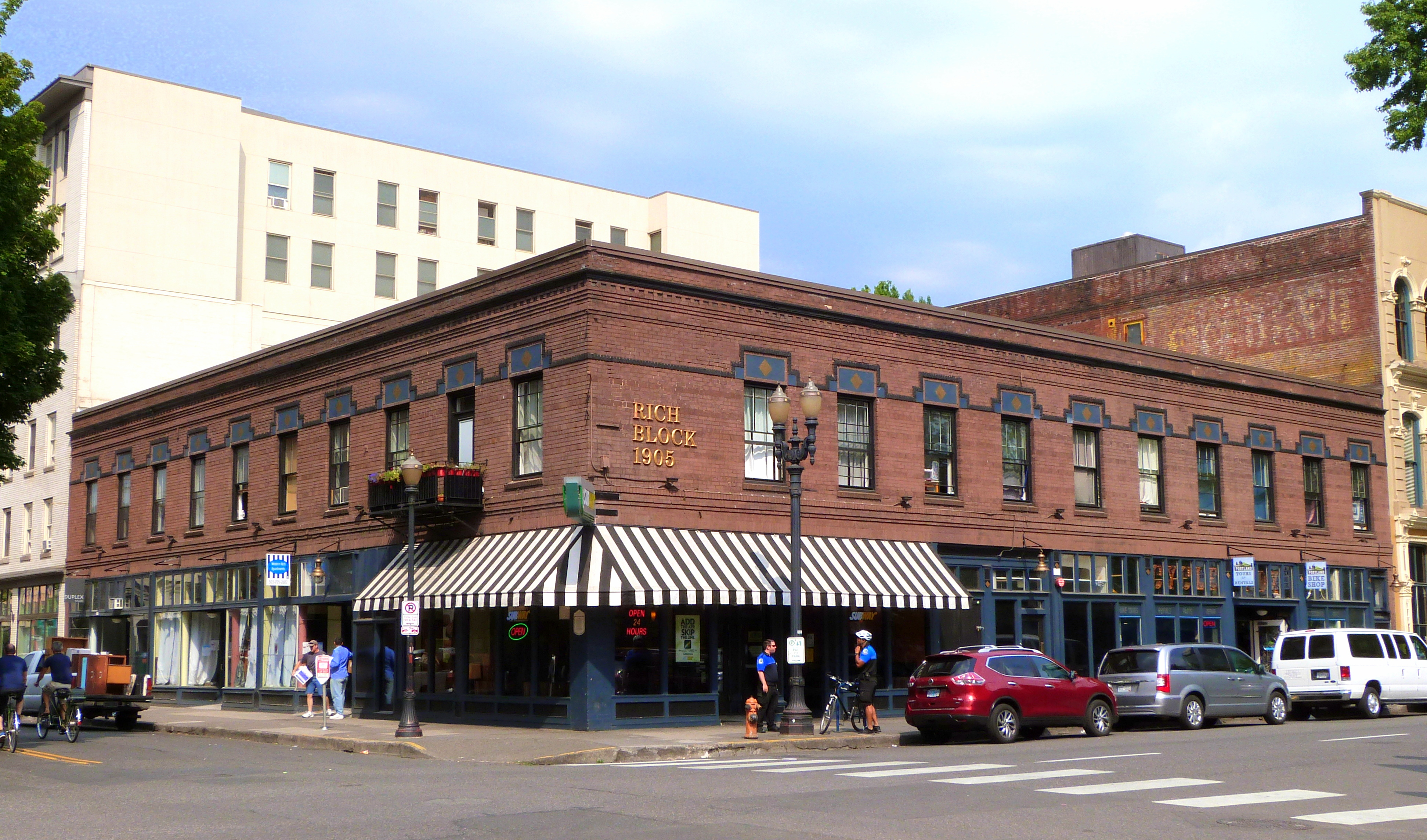 The historic Rich Block (built 1914), located at 205 Northwest Couch Street in Portland, Oregon, United States, is listed as a contributing resource in the Portland Skidmore/Old Town Historic District. The historic district is listed on the U.S. National Register of Historic Places and is a designated National Historic Landmark.